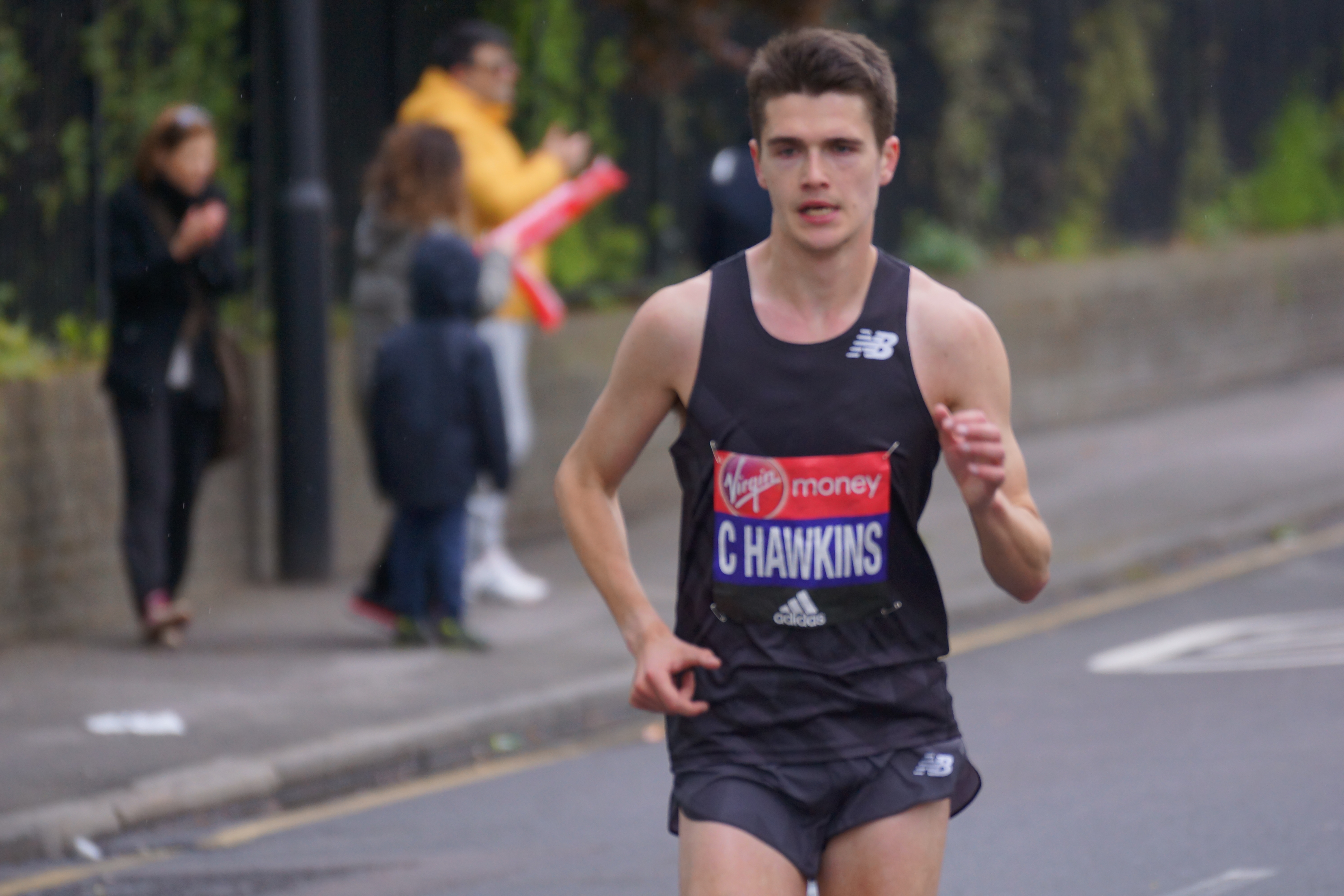 Callum Hawkins at the 2016 London Marathon